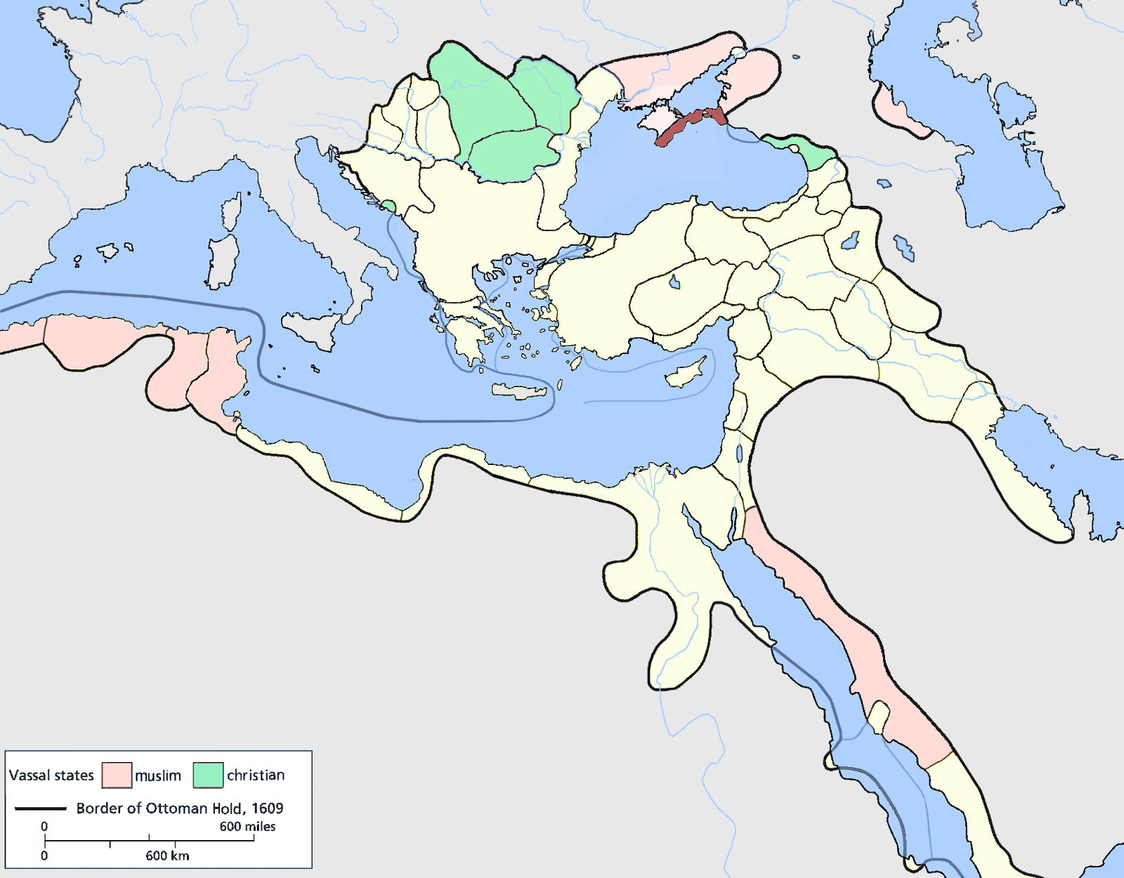 Caffa Eyalet, Ottoman Empire (1609). Source: Encyclopedia of the Ottoman Empire at Google Books By Gábor Ágoston, Bruce Alan Masters